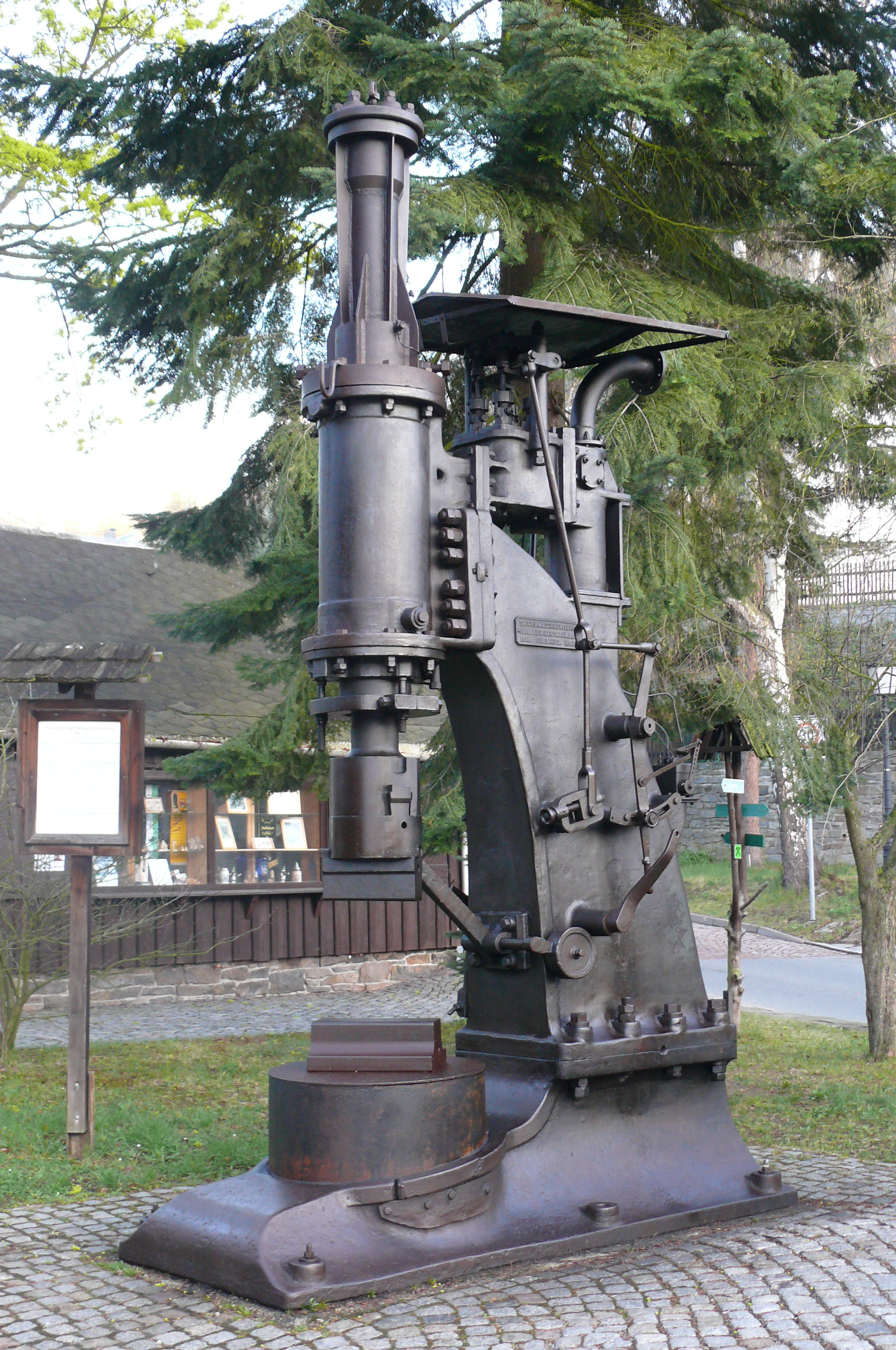 Steam hammer in Annaberg, Germany.